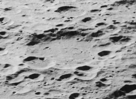 Oblique view of Von Békésy crater, on the far side of the moon, facing west